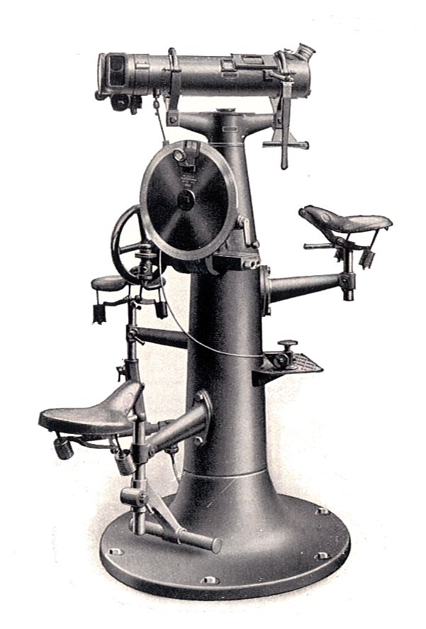 Range-finding Instruments Range-finding Inclinometer Photo: By Courtesy of Messrs. Barr & Stroud The instrument directly measures an angular offset in azimuth. Assuming the range has already been measured, and the length of the target ship is known, trignometry within the instrument allows the relative course to be determined. See Burgess, p.94